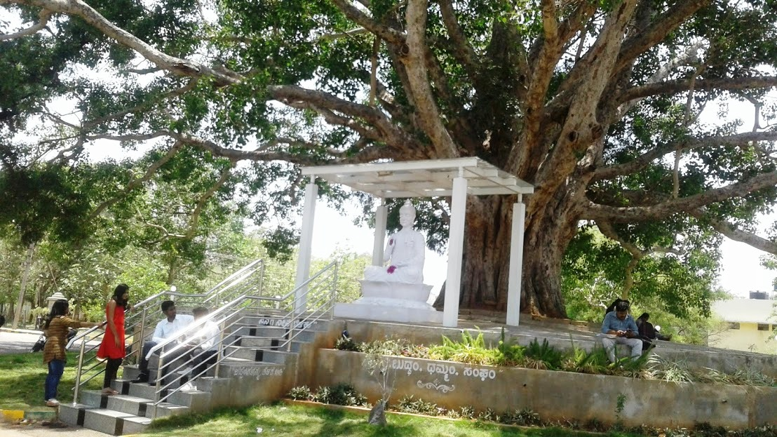 This is a popular hangout of students inside the Mysore University main campus located near the Premier Studio bus stop.